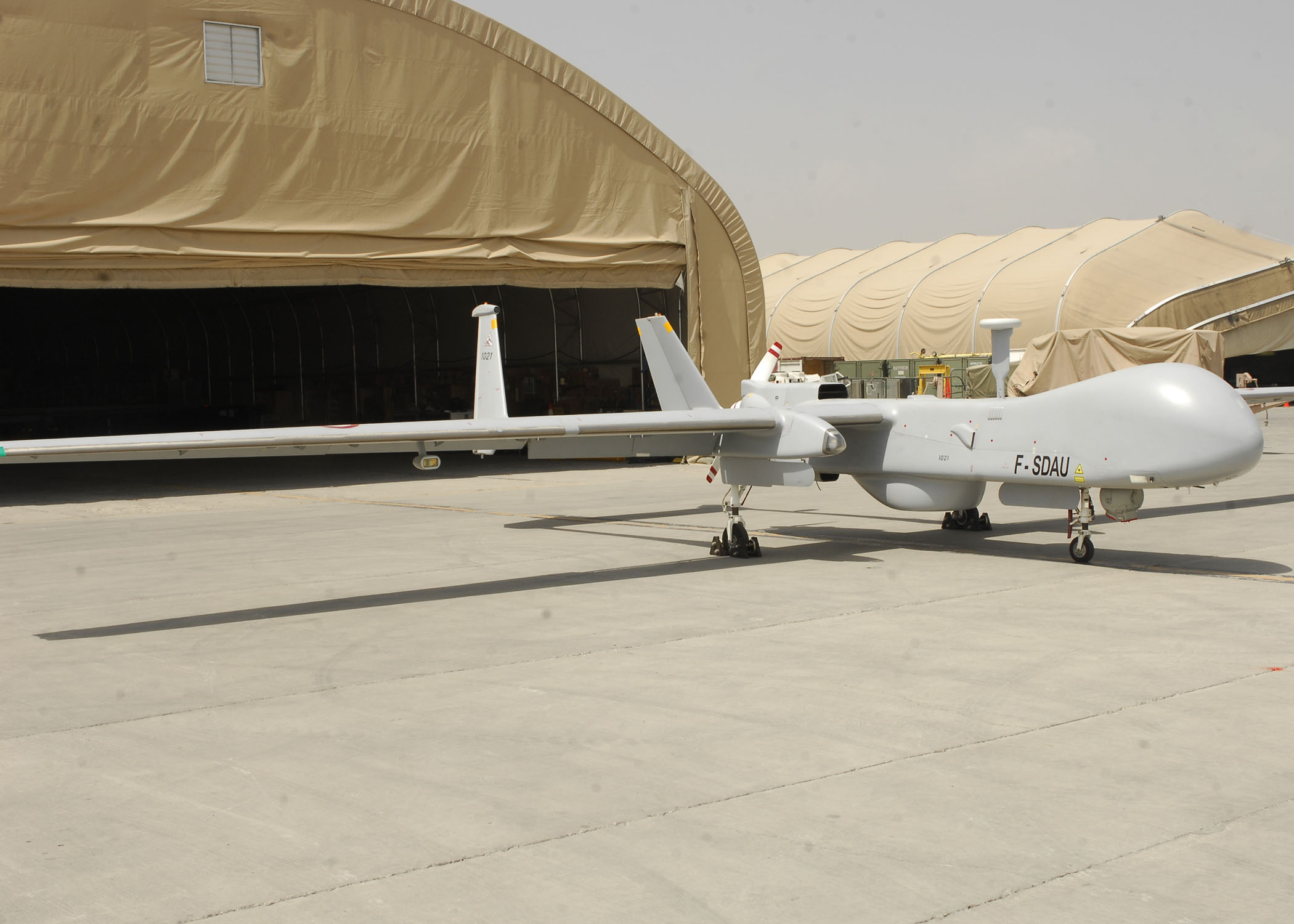 BAGRAM AIR FIELD, Afghanistan - An Unmanned Aerial Vehicle, from the French UAV Squadron, waits to be flown, here July 11. The French UAV is very similar to the U.S. Predator MQ-1 UAV. (U.S. Air Force photo/Senior Airman Felicia Juenke)